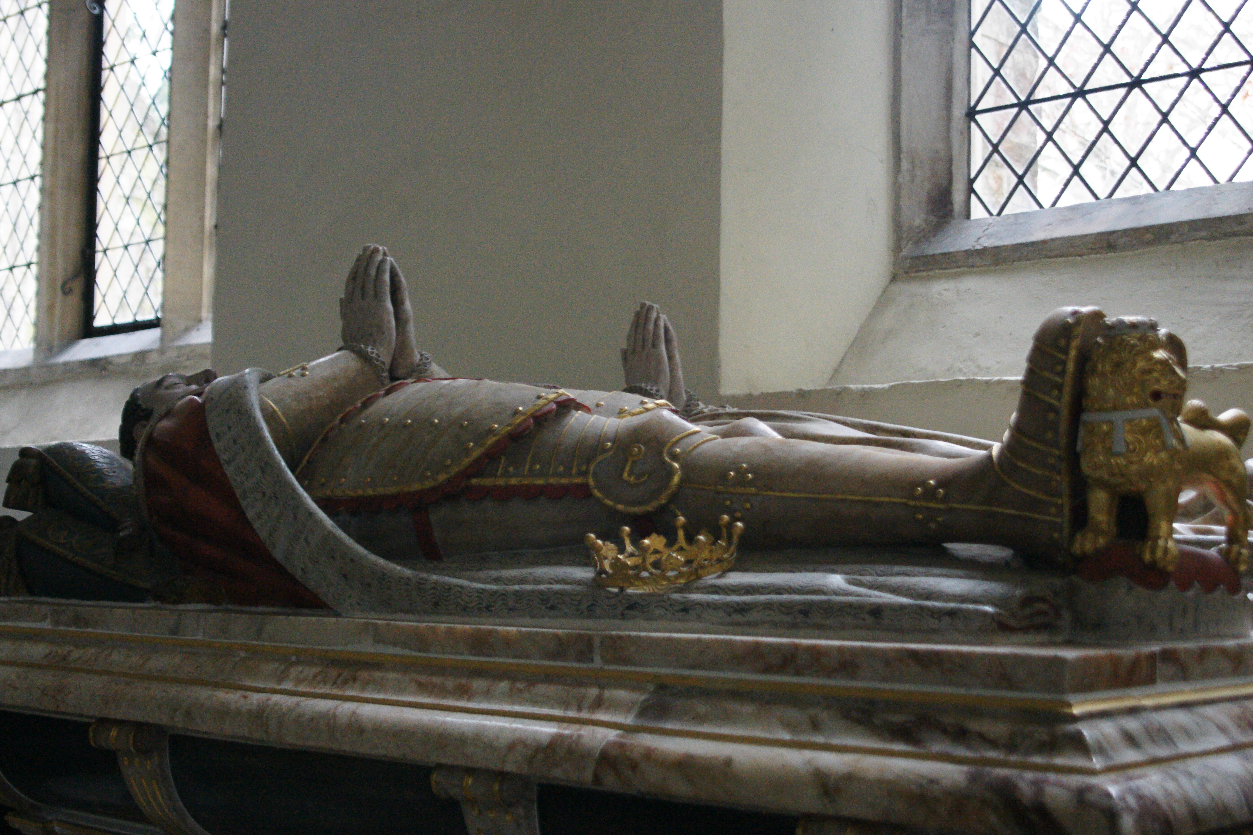 Henry Howard, Earl of Surrey: tomb in St Michael's Church, Framlingham, Suffolk